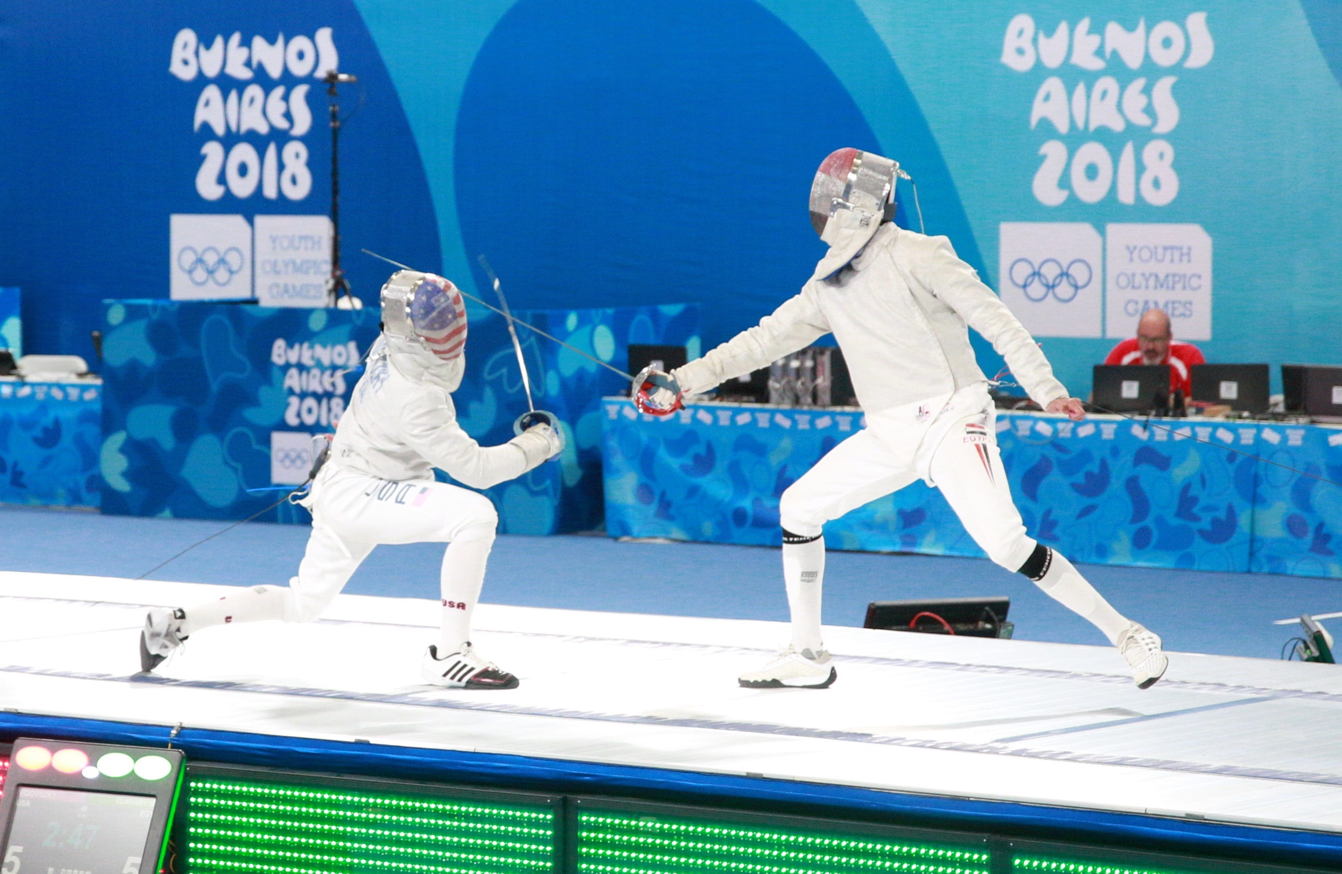 Fencing at the 2018 Summer Youth Olympics at 7 October 2018 – Boys' sabre Bronze medal match – Mazen Elaraby (EGY) Vs Robert Vidovszky (USA) 15:10